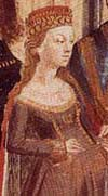 Isabelle of Hainault